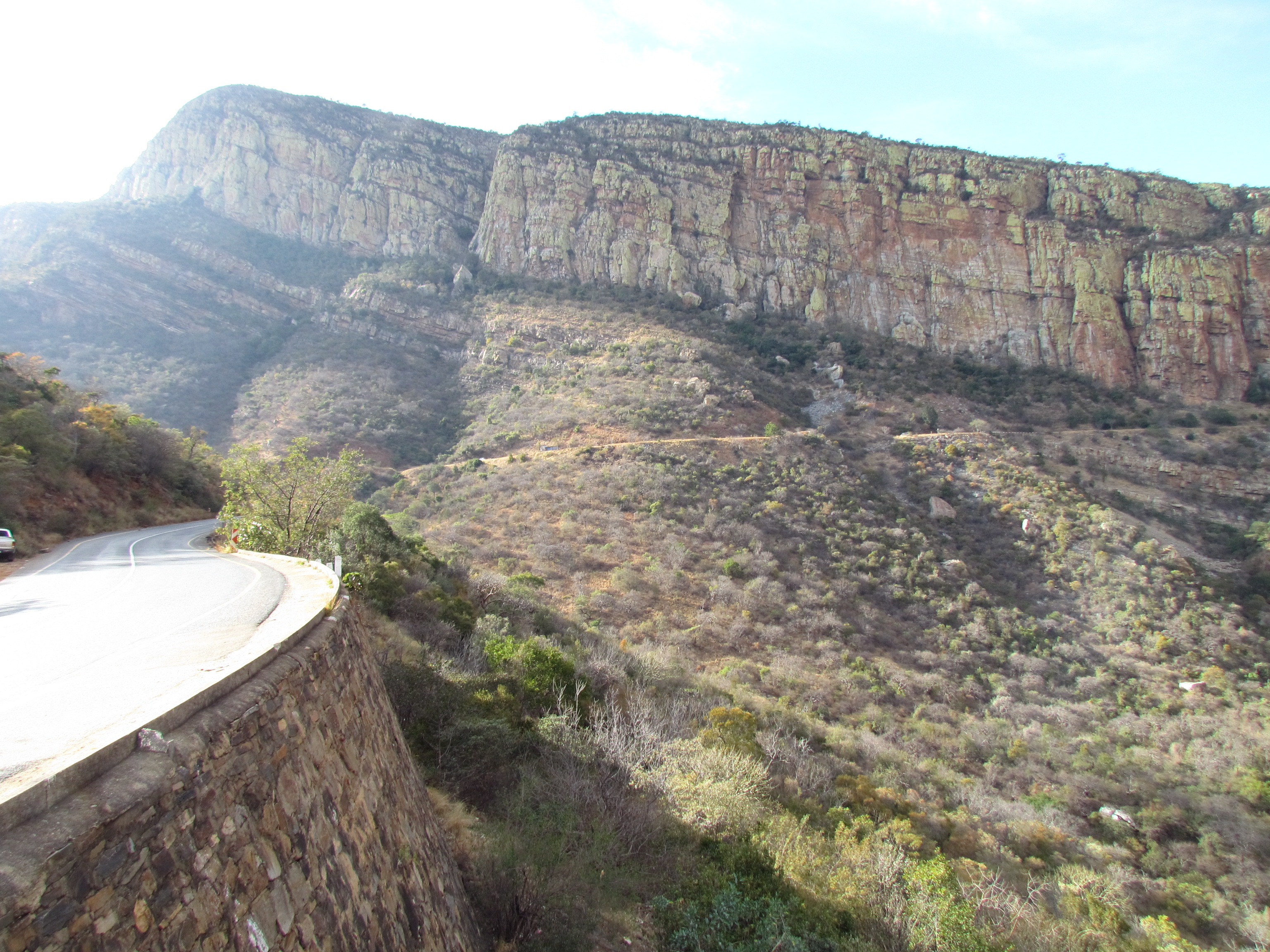 Abel Erasmus Pass view, from outside the J.G.Strijdomtunnel